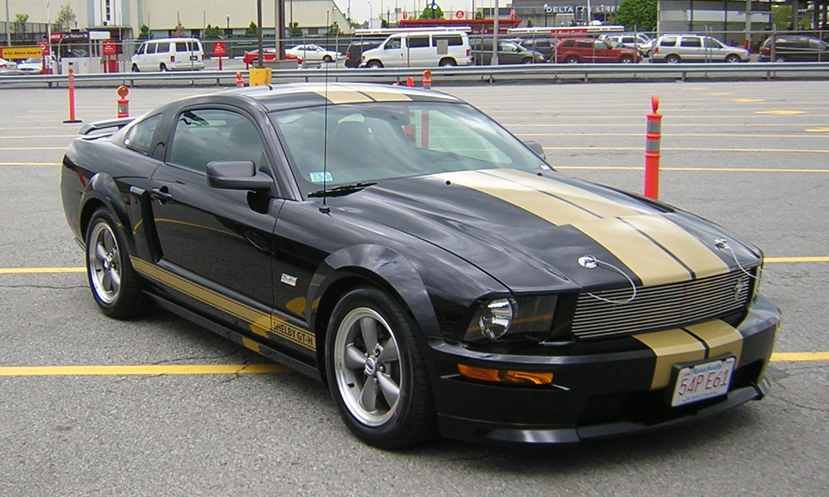 2006 special Hertz Corporation Shelby Cobra Mustang